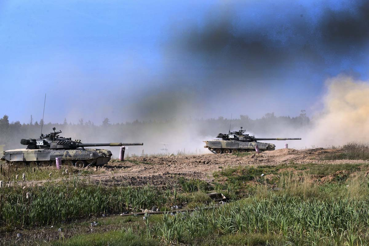 4th Guards Tank Division.